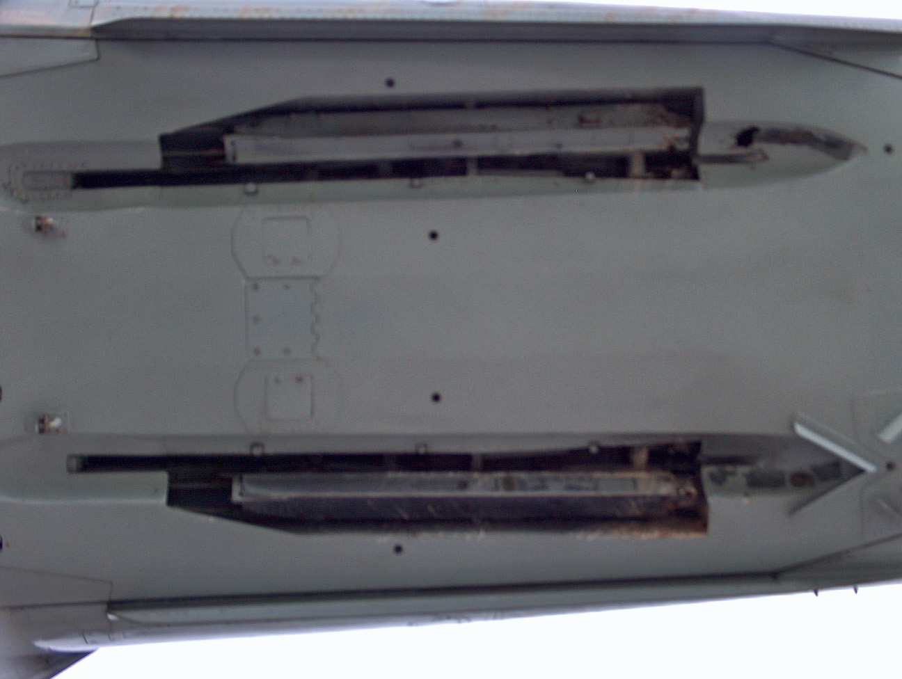 F-101B Voodoo missile launcher bay (AIM-4 Falcon side of the palette) near Ft Lewis, Tacoma WA. Taken by Arthur Hu.